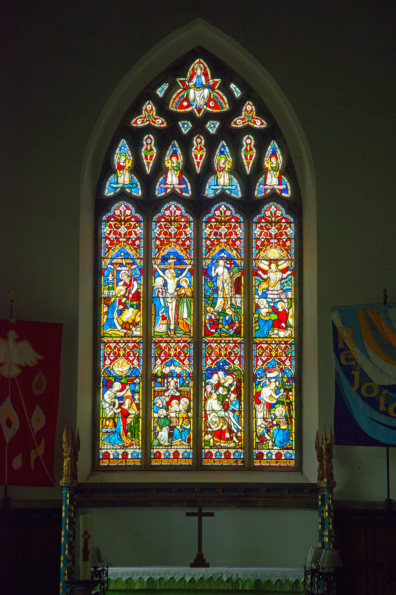 Stained glass window above the altar